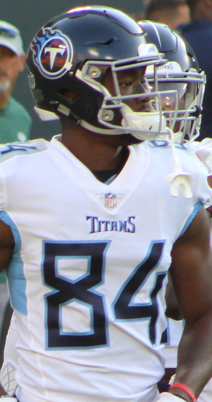 Corey Davis, Tennessee Titans at Green Bay Packers (Preseason), August 9, 2018